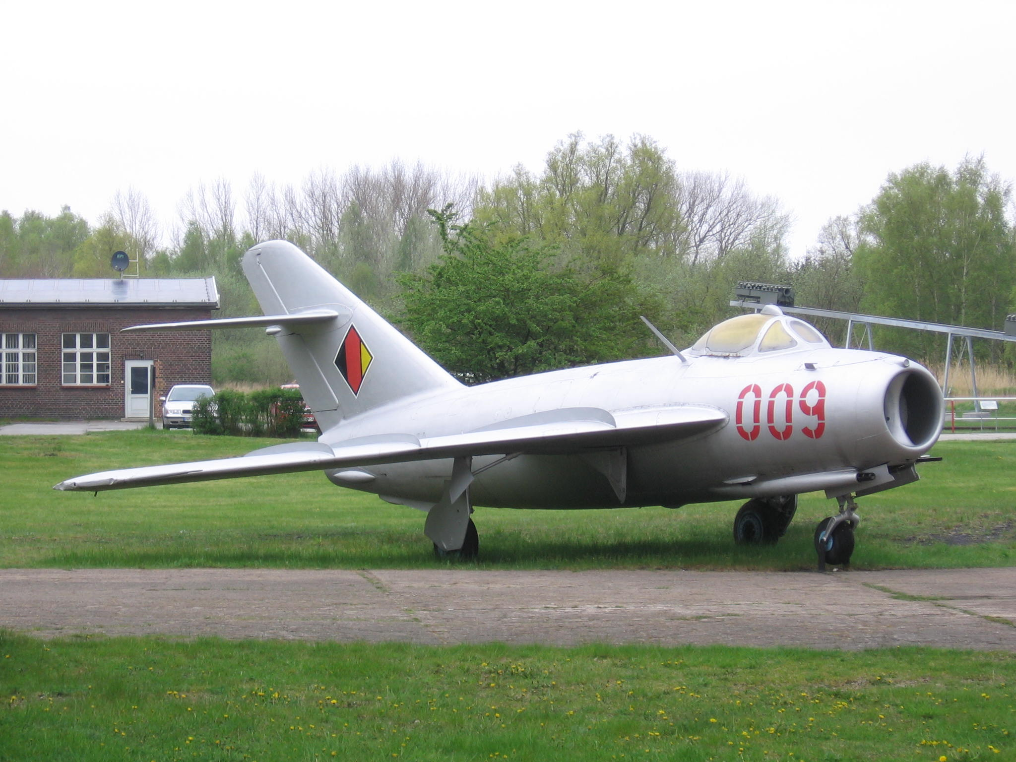 MiG-17.